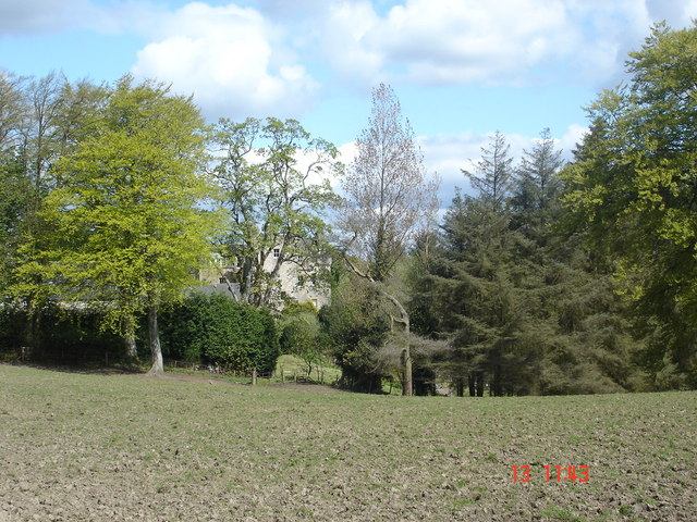 Bridgecastle near Armadale. The restored castle is just visible through the trees. A number of quality private houses have been built around the castle to make an exclusive corner in West Lothian.